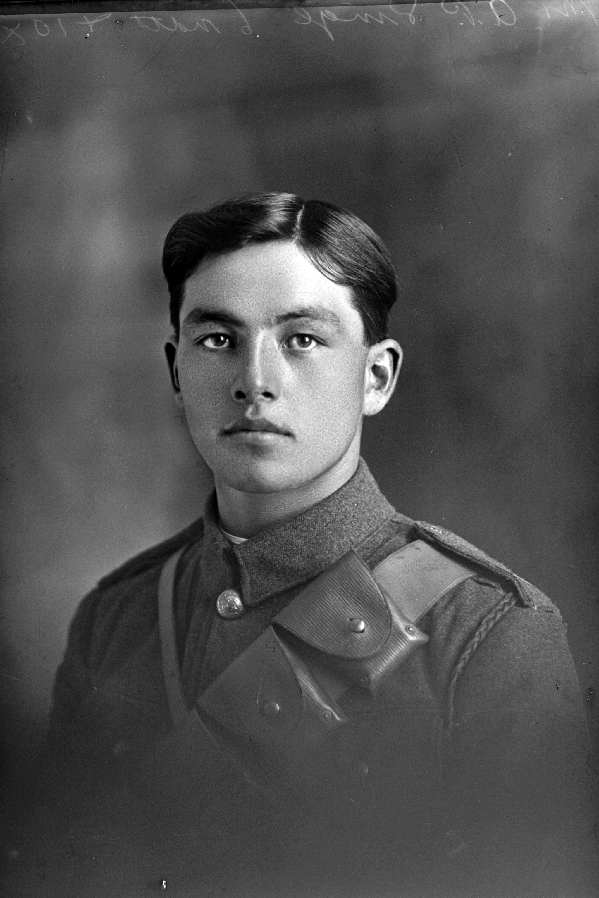 A photograph of Private Arthur Percy Sing of the New Zealand forces during World War 1. Photograph was taken in 1916 by Herman Schmidt. No known copyright.